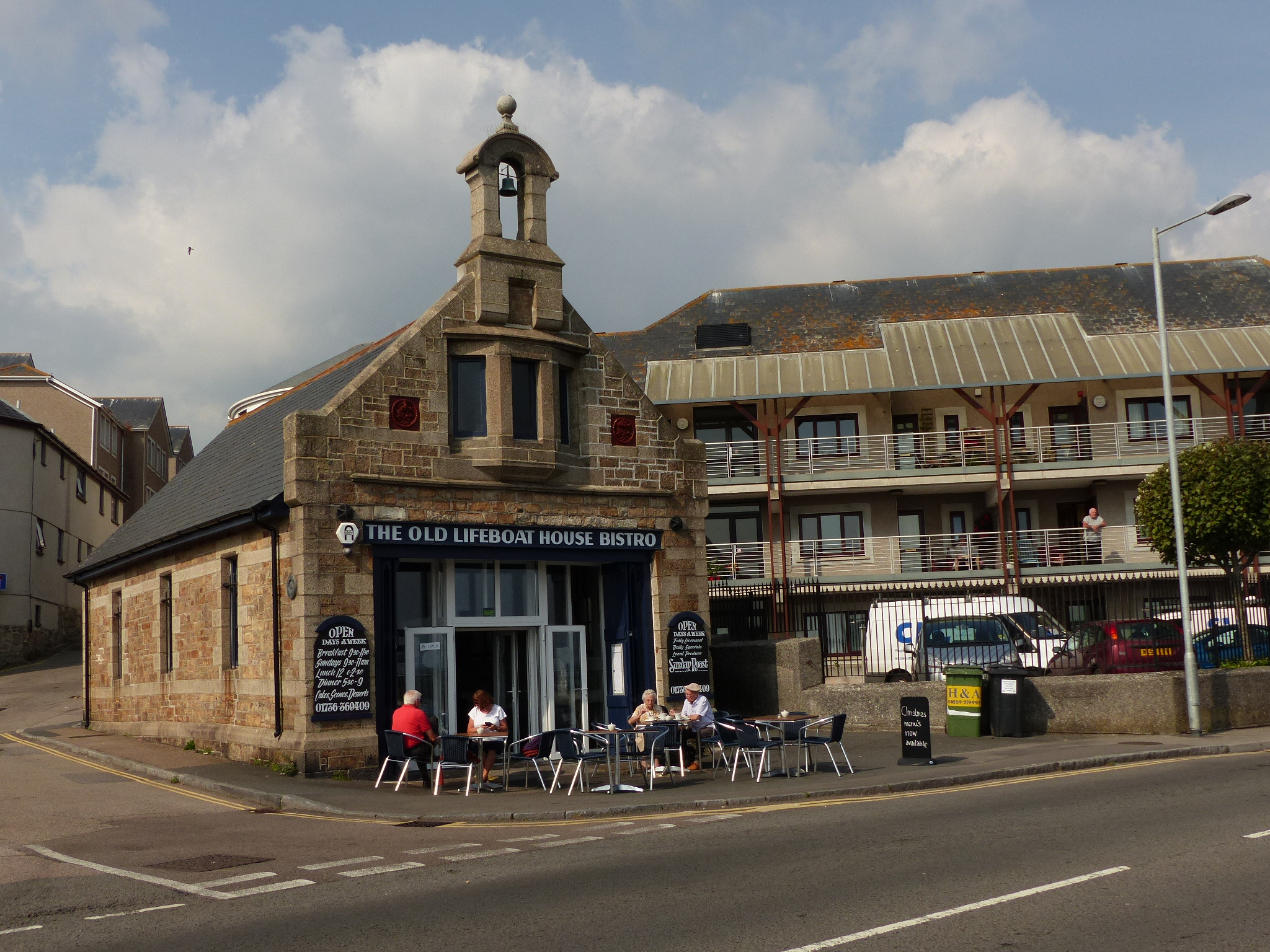 The Old Lifeboat House Bistro, Penzance. Built of Lamorna granite in 1884, this was used as a lifeboat station until 1917, although largely replaced by the Penlee station in 1913.